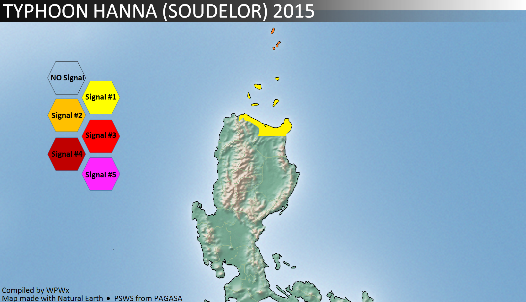 The highest Public Storm Warning Signal raised throughout the country when Hanna traversed Northern PAR